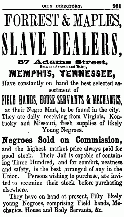 N.B. Forrest listing from Memphis City Directory, 1855-1856